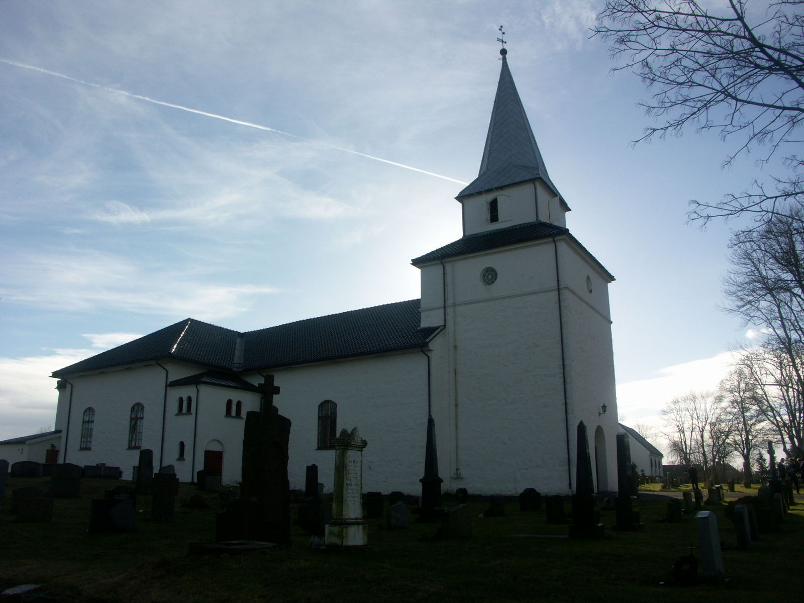 Village church, island of Nøtterøy, Vestfold, Norway